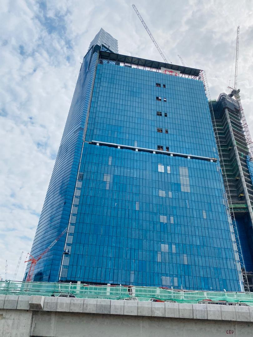 HSBC Malaysia Headquarters under construction in July 2020, in TRX, Kuala Lumpur's new financial center